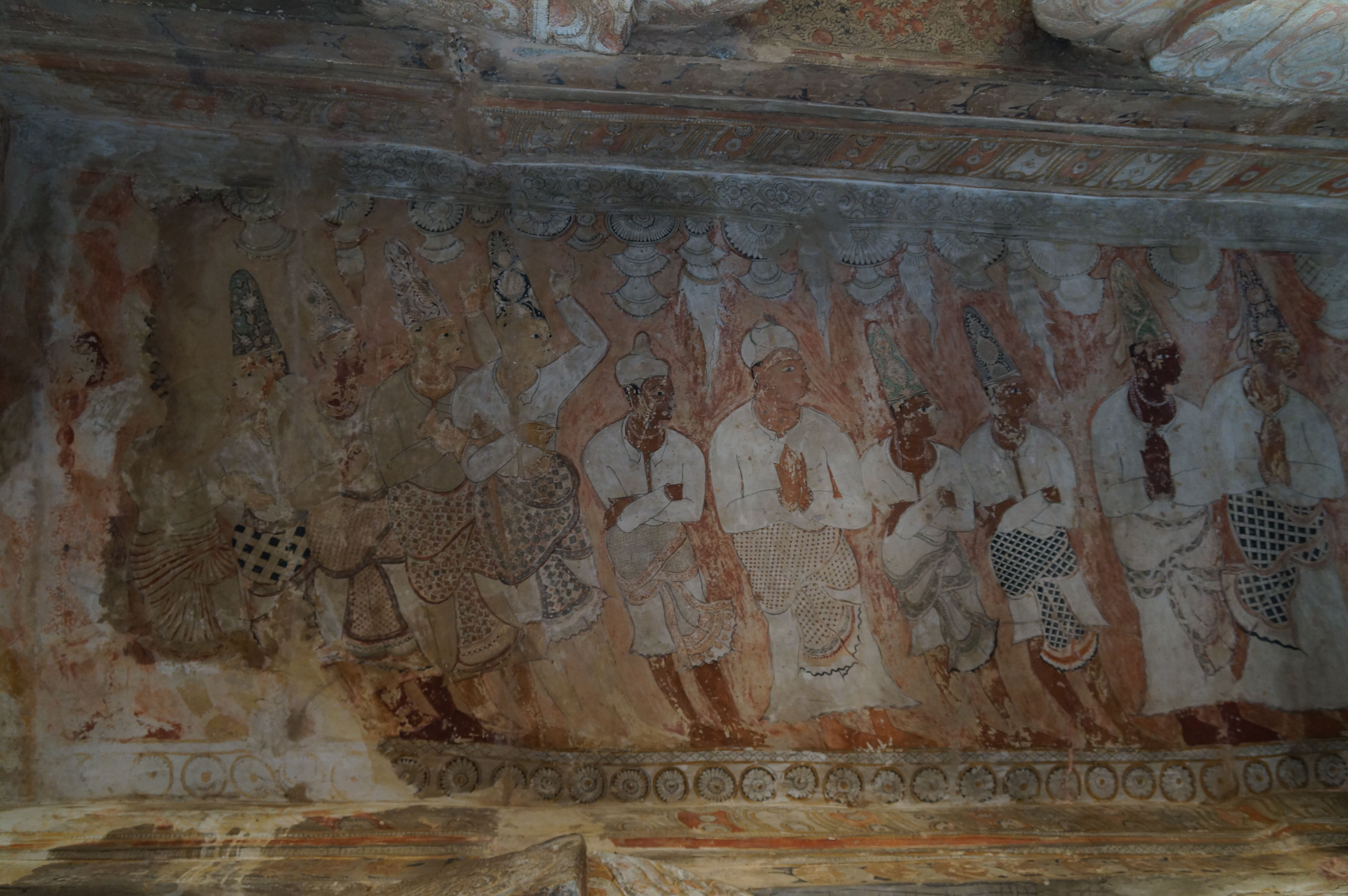 Ceiling paint at Lepakshi temple